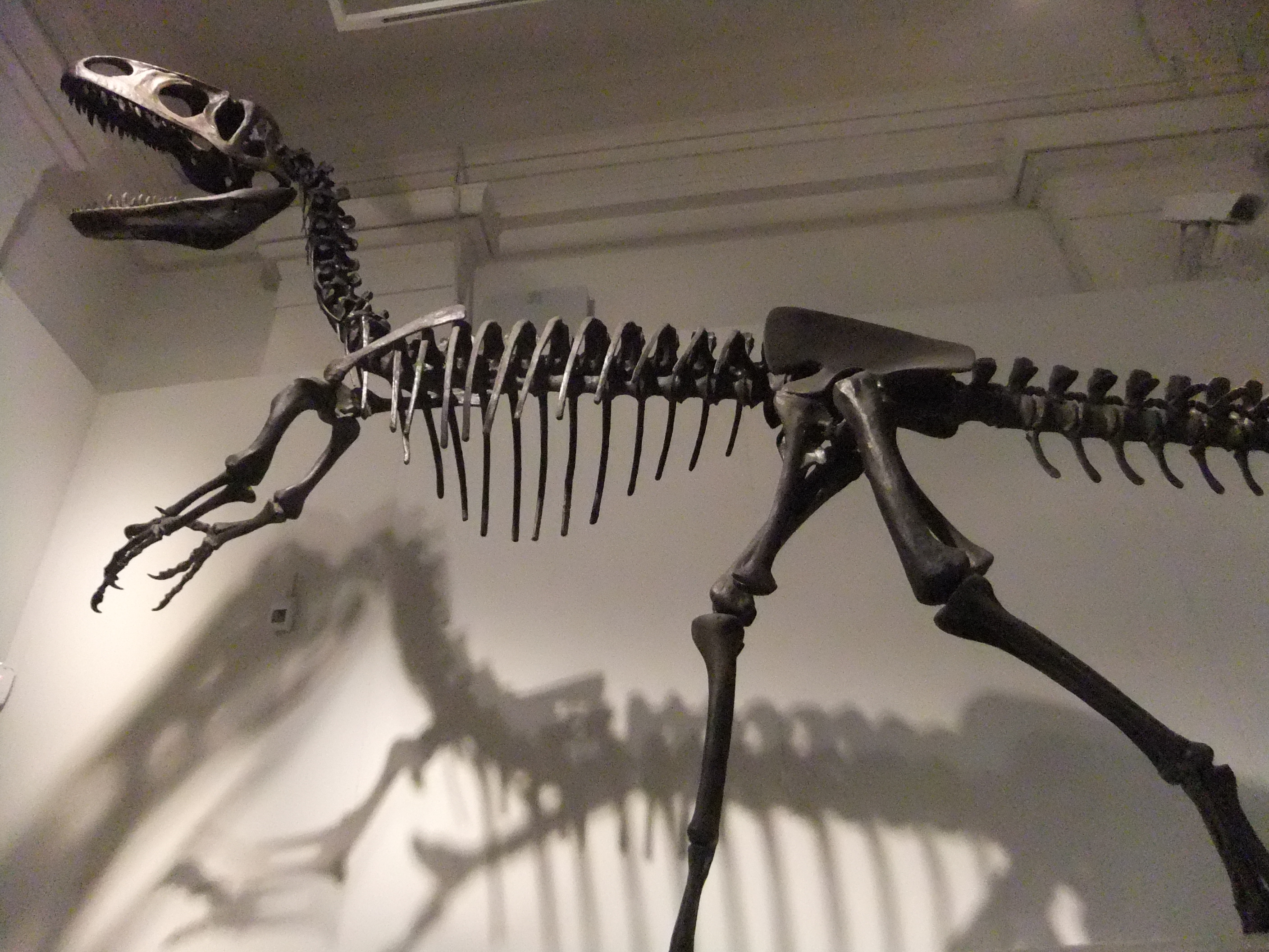 On display in Leicester's New Walk museum and art gallery.